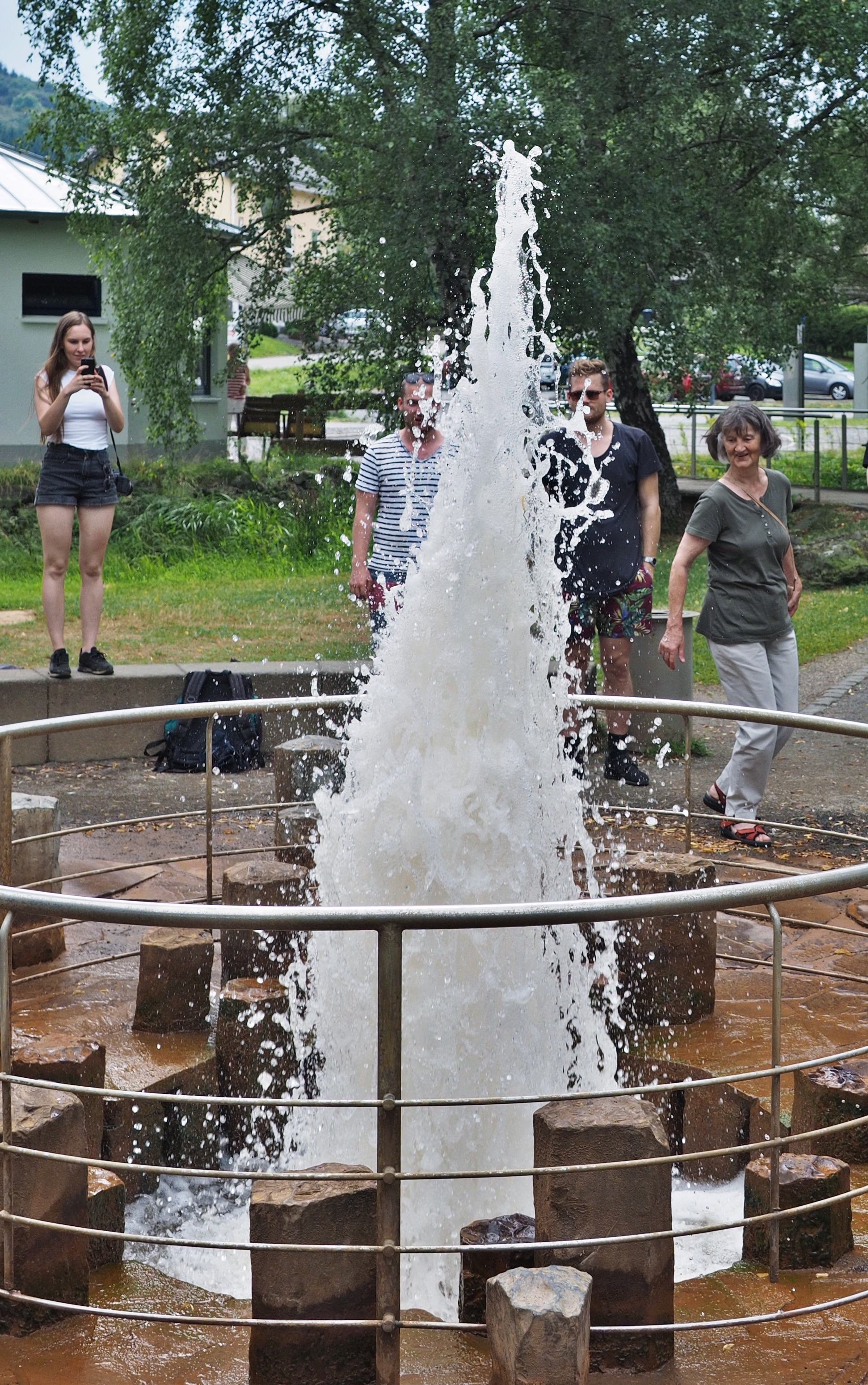 Cold water geysir "Wallender Born", Germany